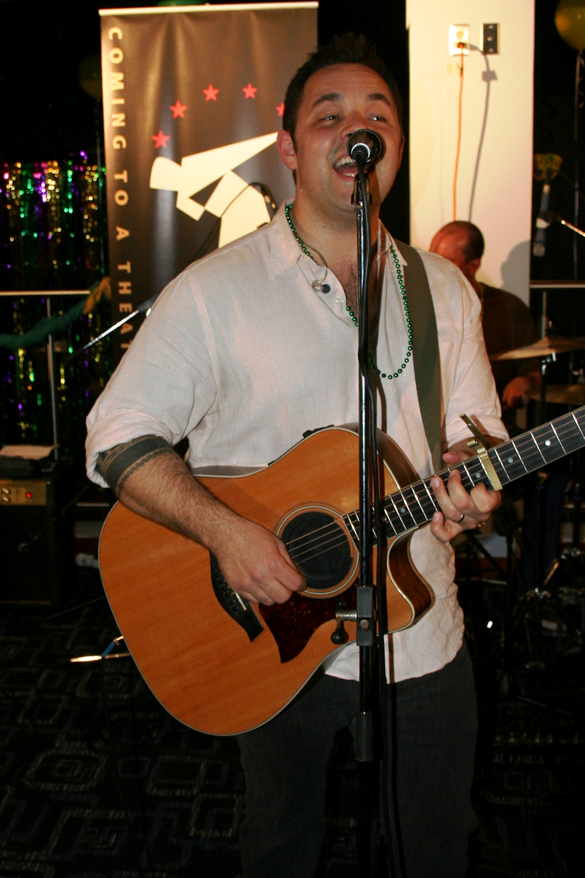 Andy Poliakoff, lead vocals, guitar for the band Virginia Coalition performed at the Top of the Rock Club here at Lajes Field February 19th.